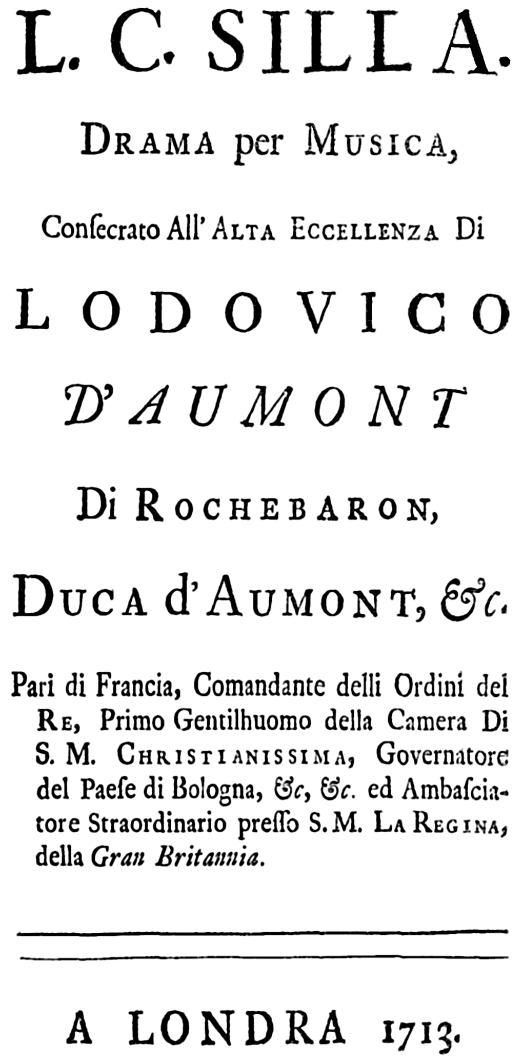 Georg Friedrich Händel - Lucio Cornelio Silla - title page of the libretto - London 1713